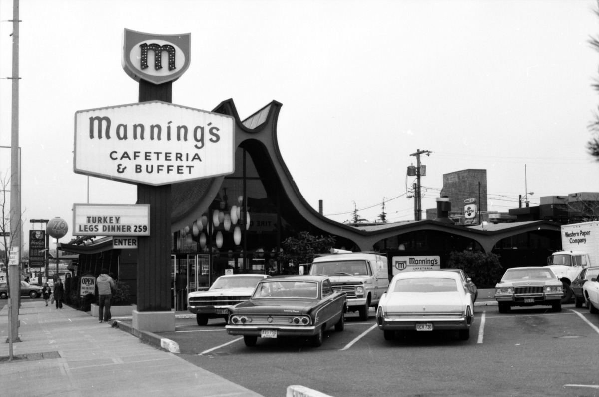 Manning's restaurant at 15th Ave NW and NW Market Street in Ballard, Seattle, Washington, circa 1970s. The building later became a Denny's, and was demolished in 2008 after a landmark designation was overturned., Seattle, Washington, U.S.